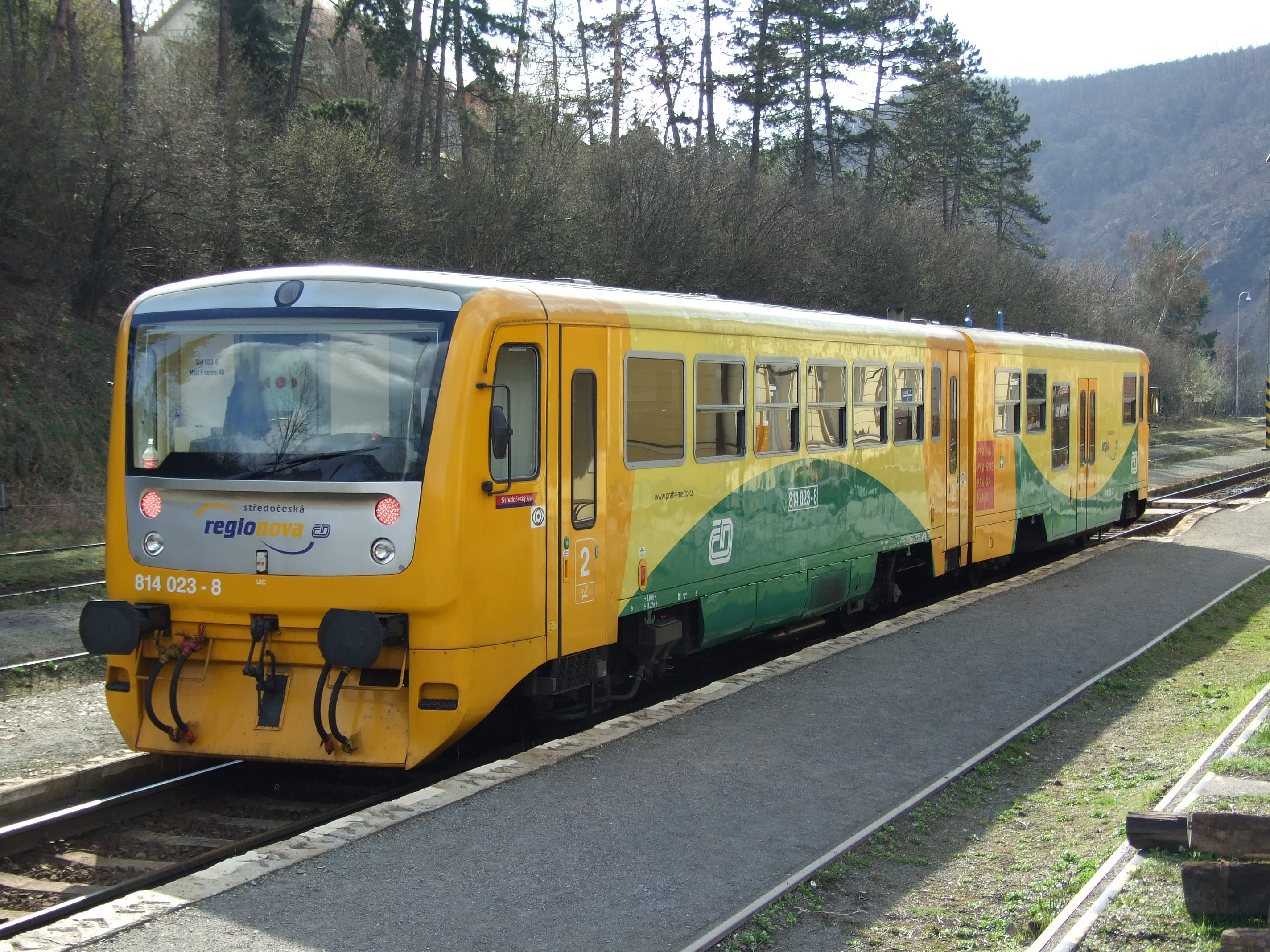 Regionova Prague diesel suburan unit